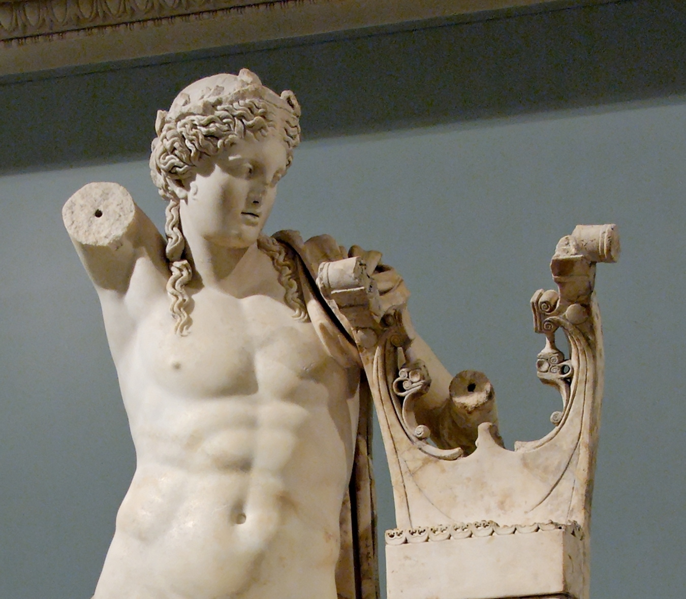 Apollo kitharoidos (holding a lyre). Marble, Roman artwork, 2nd century CE, influence of Hellenistic statuary of the 2nd century BC. From the Temple of Apollo at Cyrene (modern Libya).